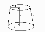 Truncated cone or frustrum of a cone